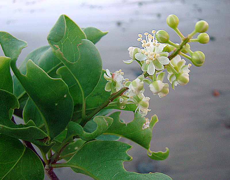 Native to Mesoamerica and the Caribbean. Photo from a shore in southwestern Nicaragua. In context at